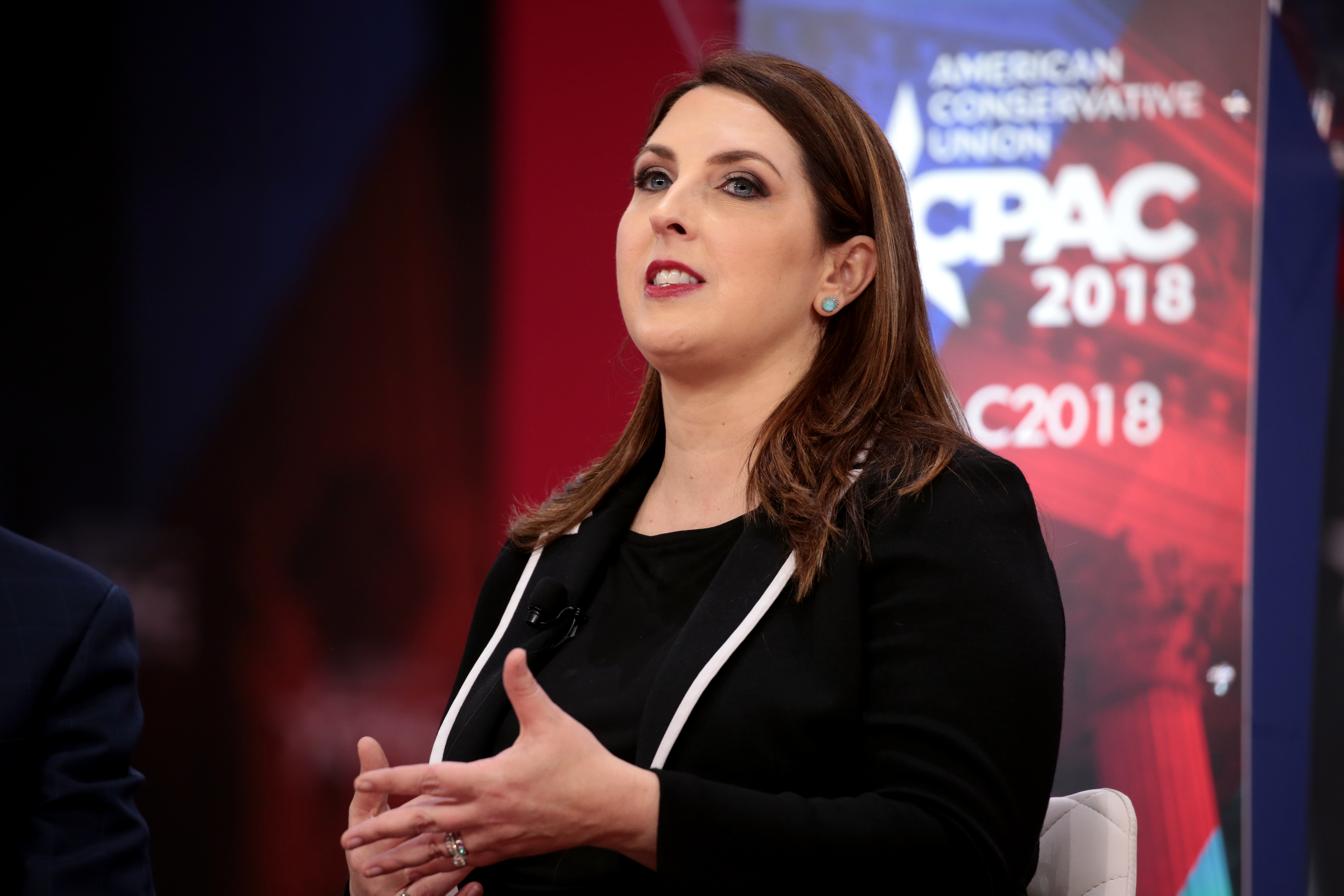 RNC Chairwoman Ronna McDaniel speaking at the 2018 Conservative Political Action Conference (CPAC) in National Harbor, Maryland.